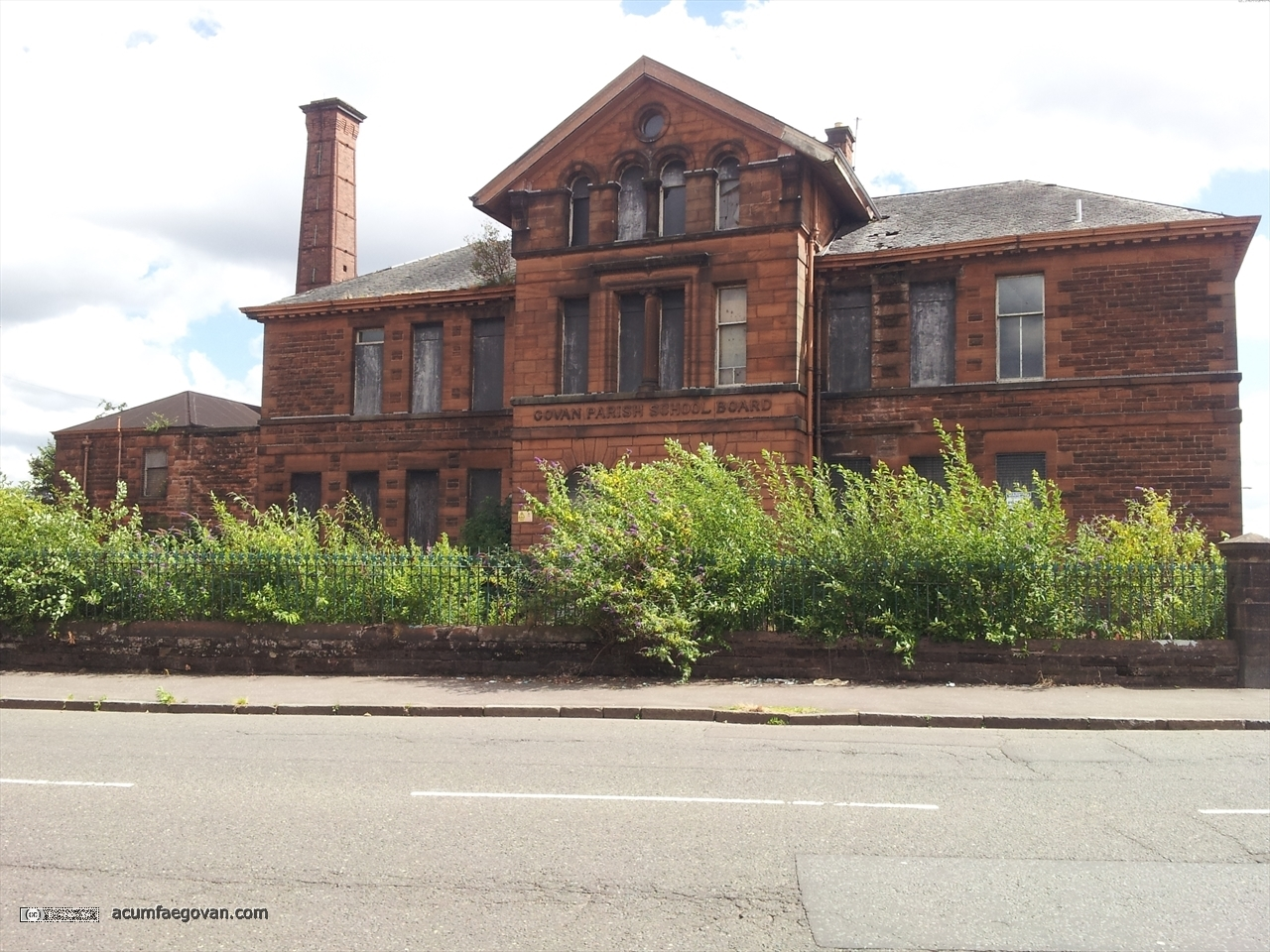 The later Broomloan Road School built 1894 and designed by H&D Barclay. Photo taken August 2013